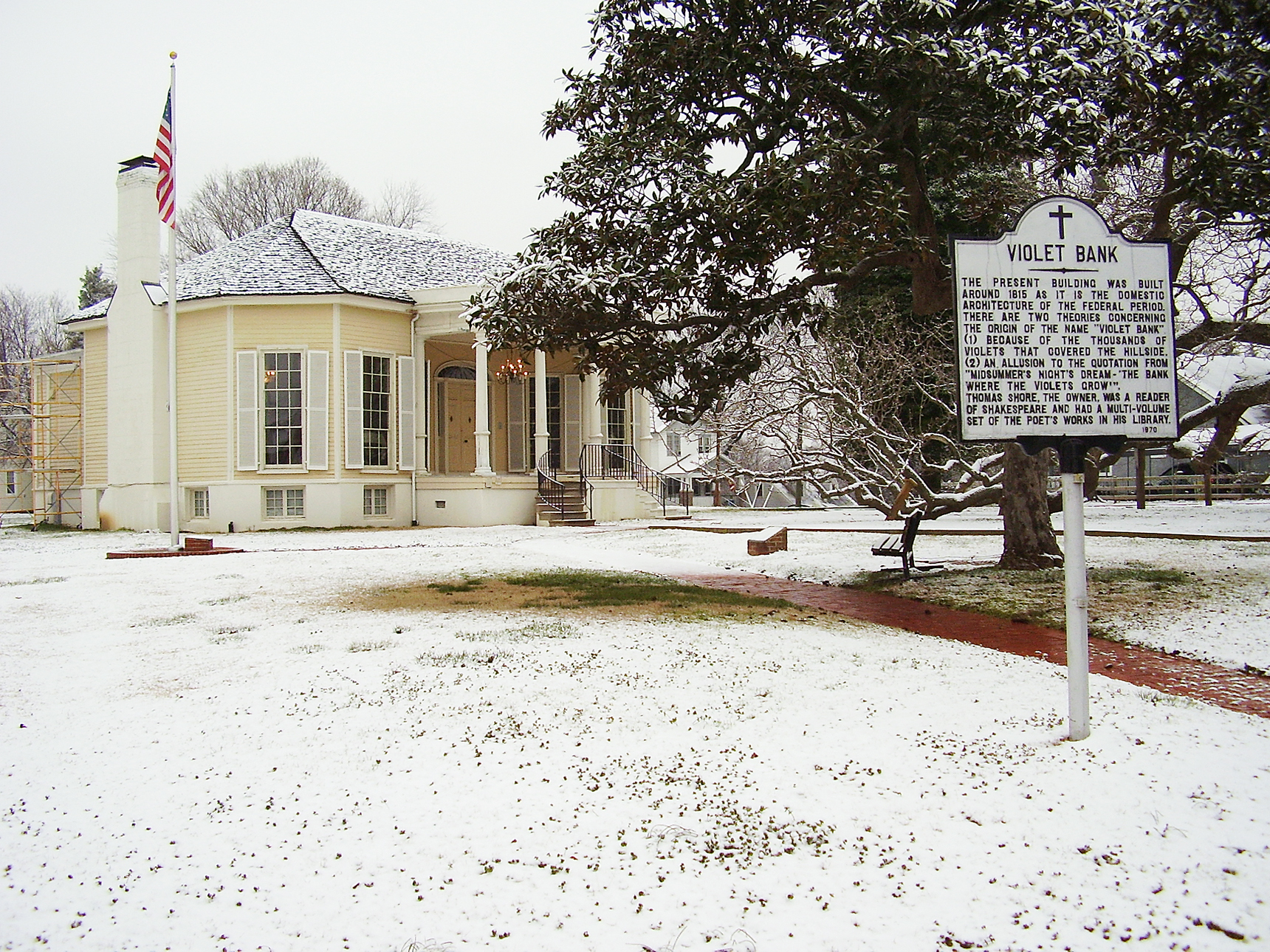 Violet Bank Museum I took this photo myself.